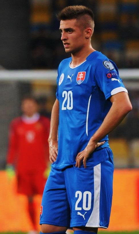 Robert Mak